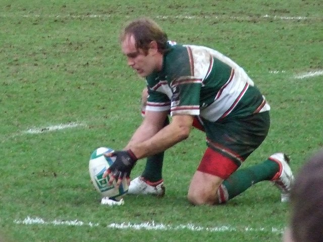 English fly-half Andy Goode for a kick during Leicester vs. Leinster, 2007-08 Heineken Cup